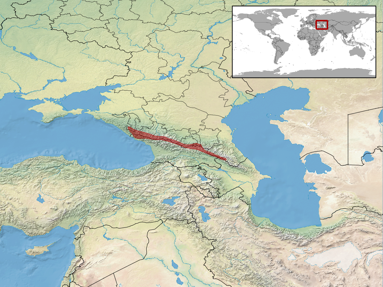 geographic distribution of Vipera dinniki (Native: Azerbaijan; Georgia; Russian Federation)